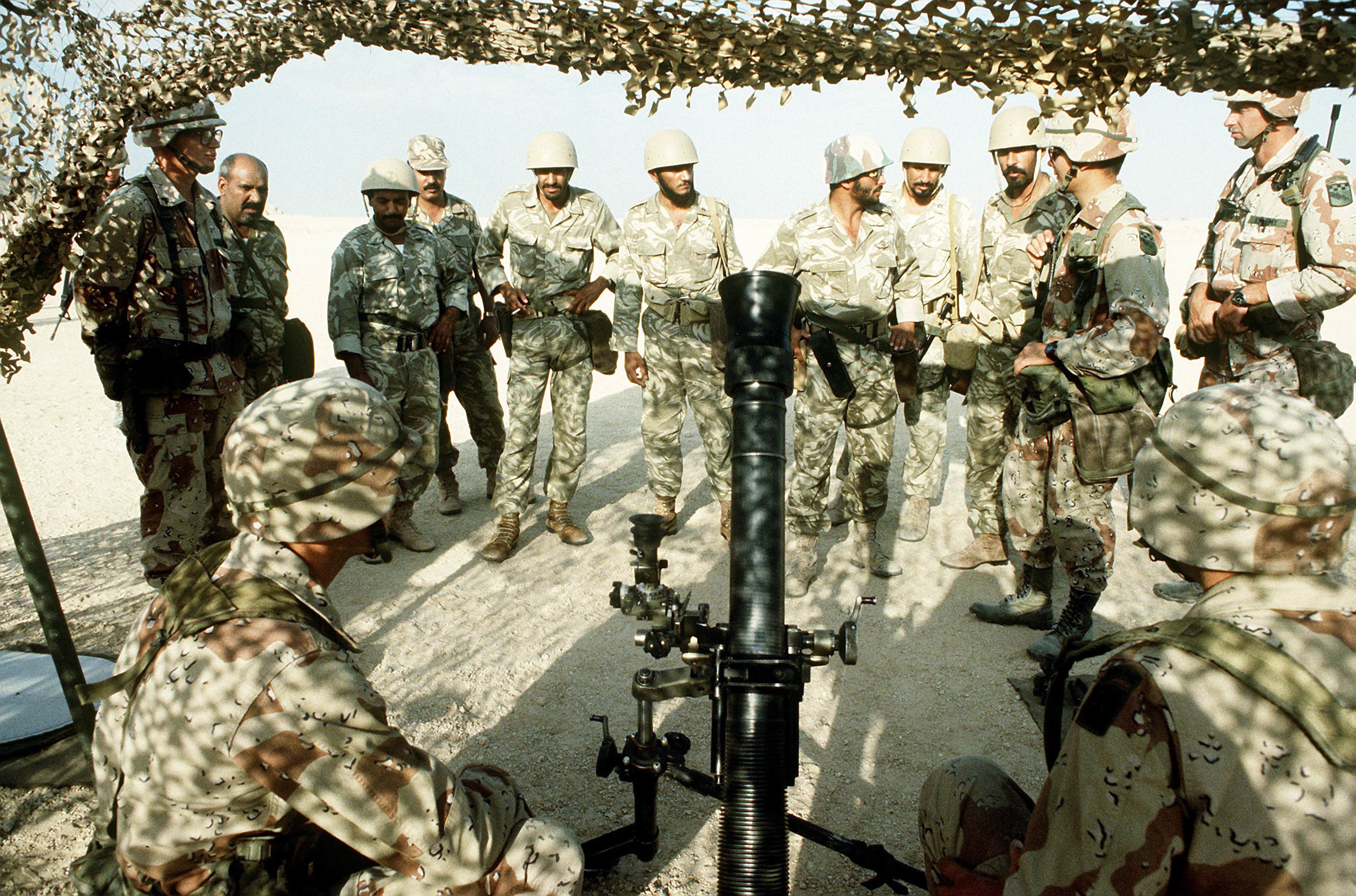 A member of the 1st Battalion, 325th Airborne Infantry Regiment, explains the M252 81mm mortar to Saudi Arabian national guardsmen. The mortar is being exhibited as part of an equipment and hardware static display during Operation Desert Shield.